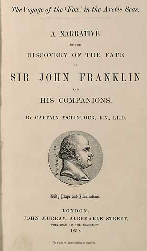 Cover of The Voyage of the 'Fox' in the Arctic Seas